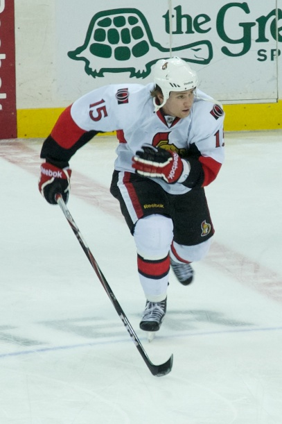 Zach Smith of the Ottawa Senators